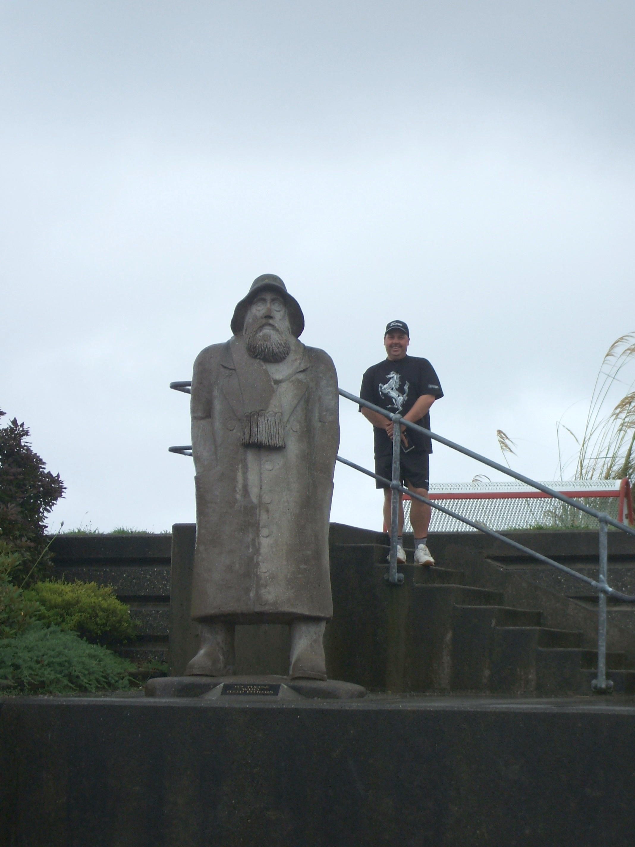 A fisherman statue at Greymouth.